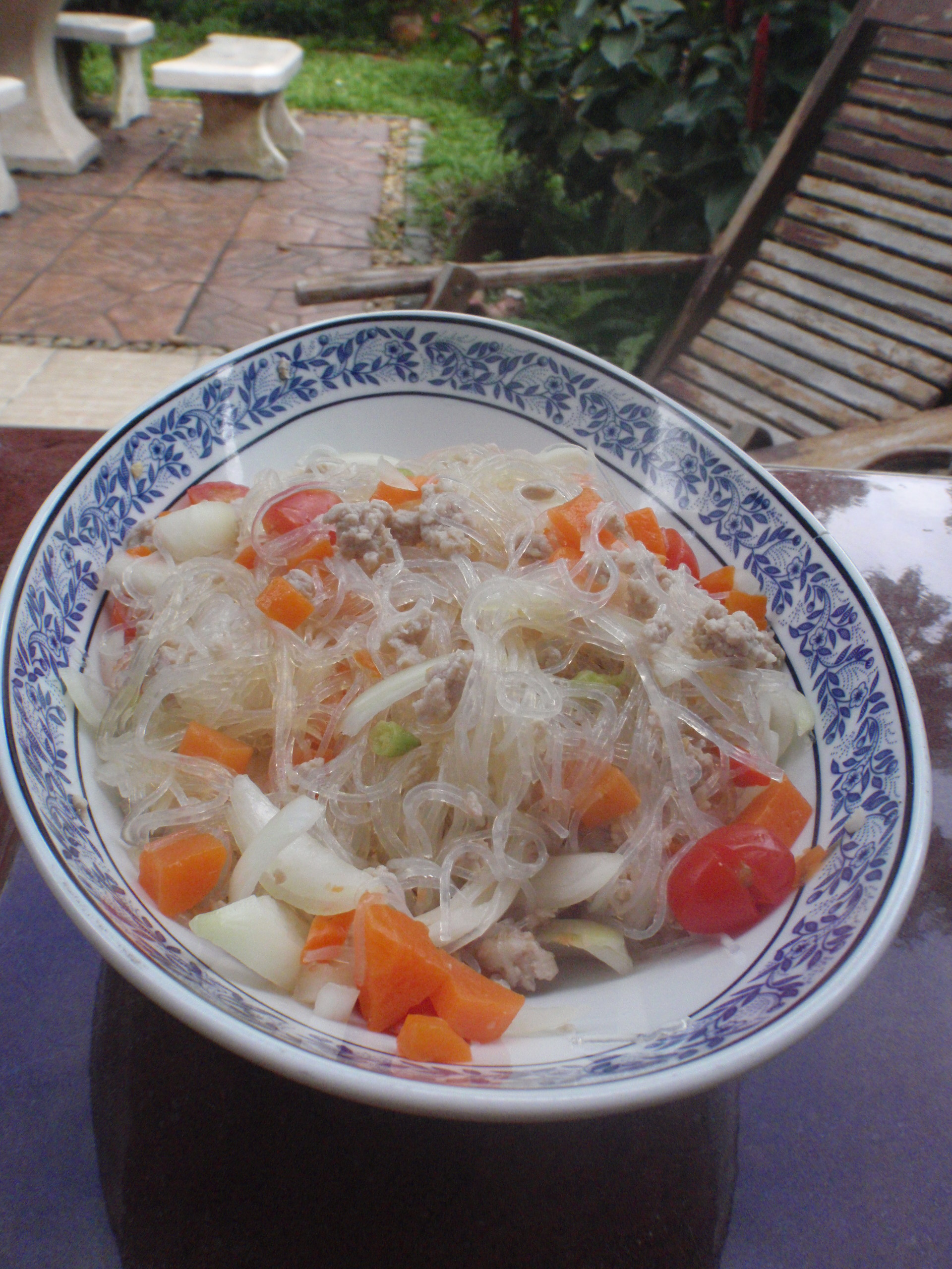 yummy Yum Woun Sen ^_^